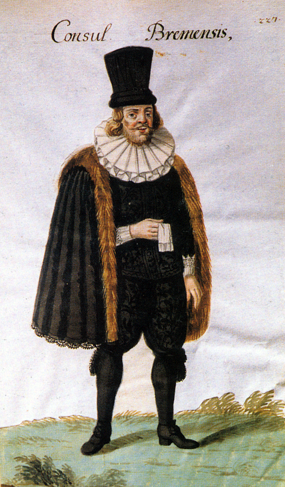 from the Renner-Chronik